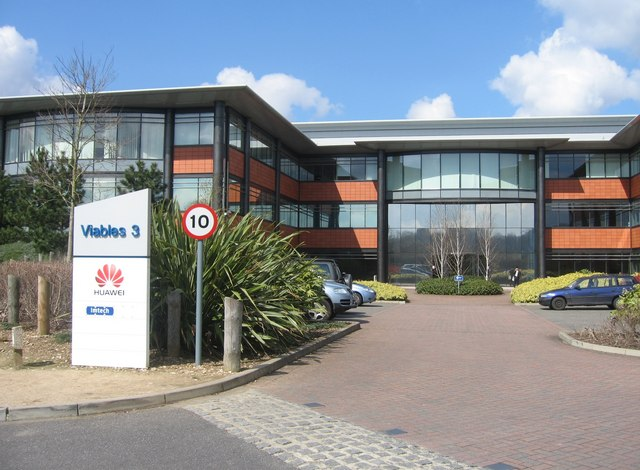 Huawei - Viables '3' offices